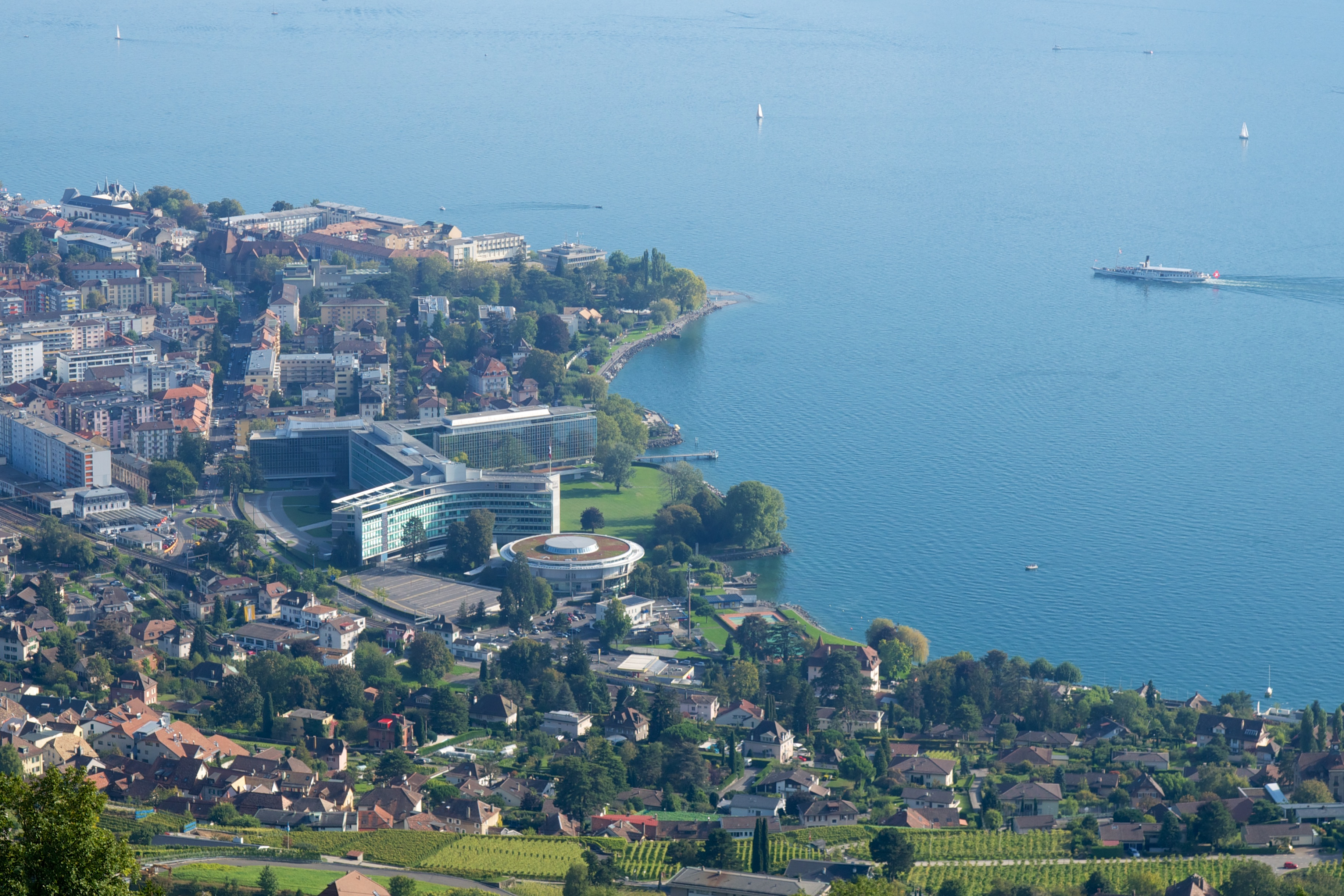 Nestlé Headquarters in Vevey, Switzerland. View from Mont Pélérin.